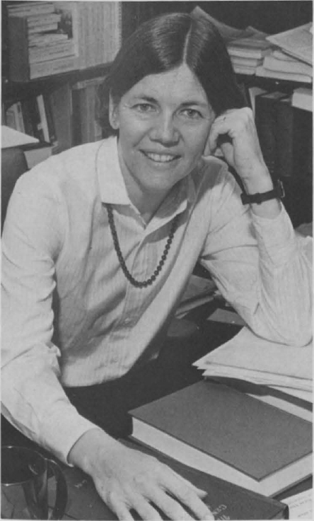 Elizabeth Warren in the 1987 edition of the Peregrinus yearbook produced by the University of Texas School of Law. She was a full professor at the university at that time.